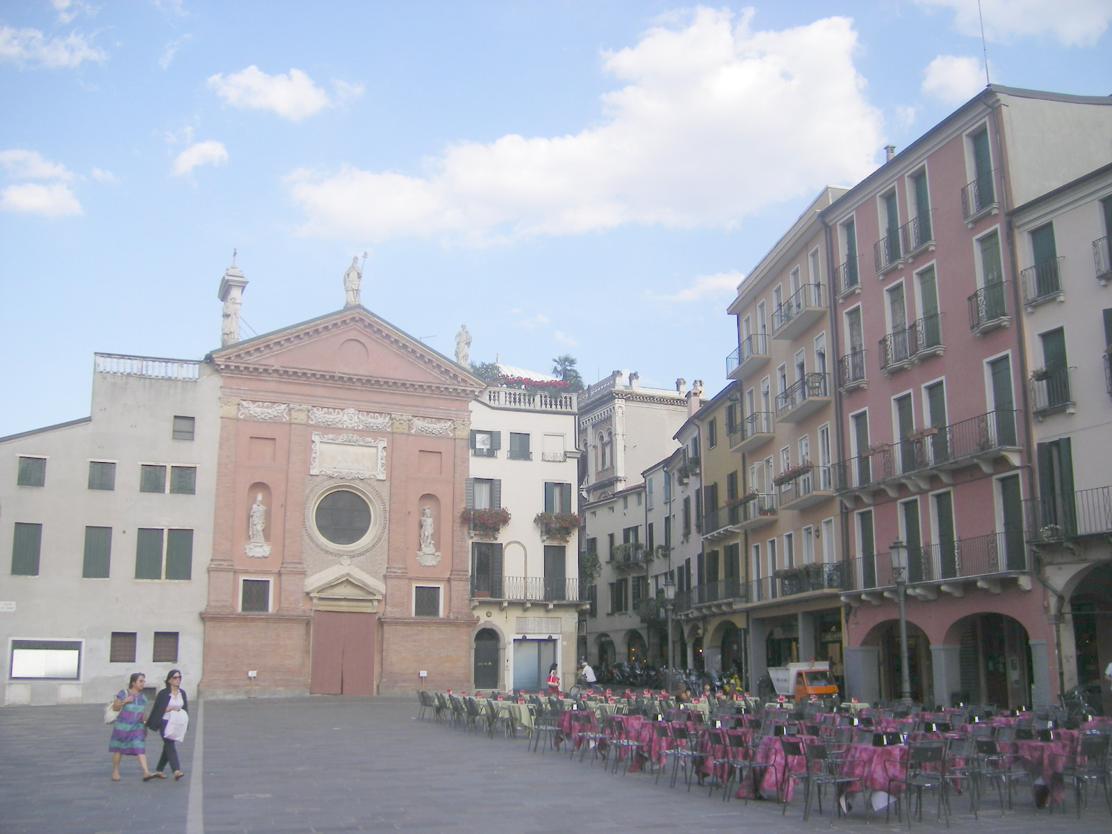 San Clemente church, Padova, Italy